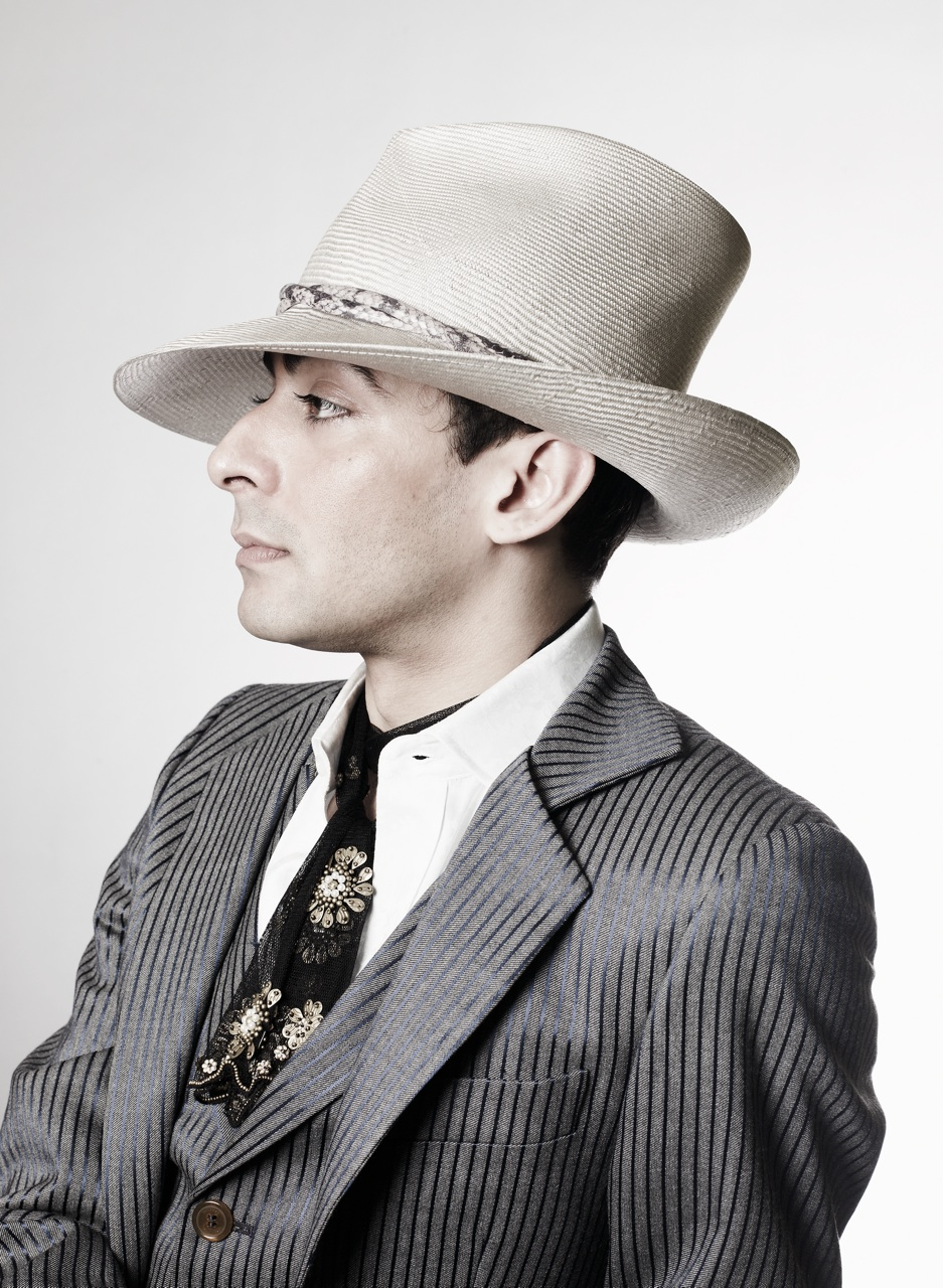 Portrait